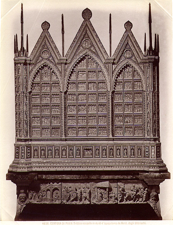 Giacomo Brogi (1822-1881) - "Certosa di Pavia. Triptych carved with hippo teeth by Bernardo degli Ubbriachi". Catalogue # 4638.